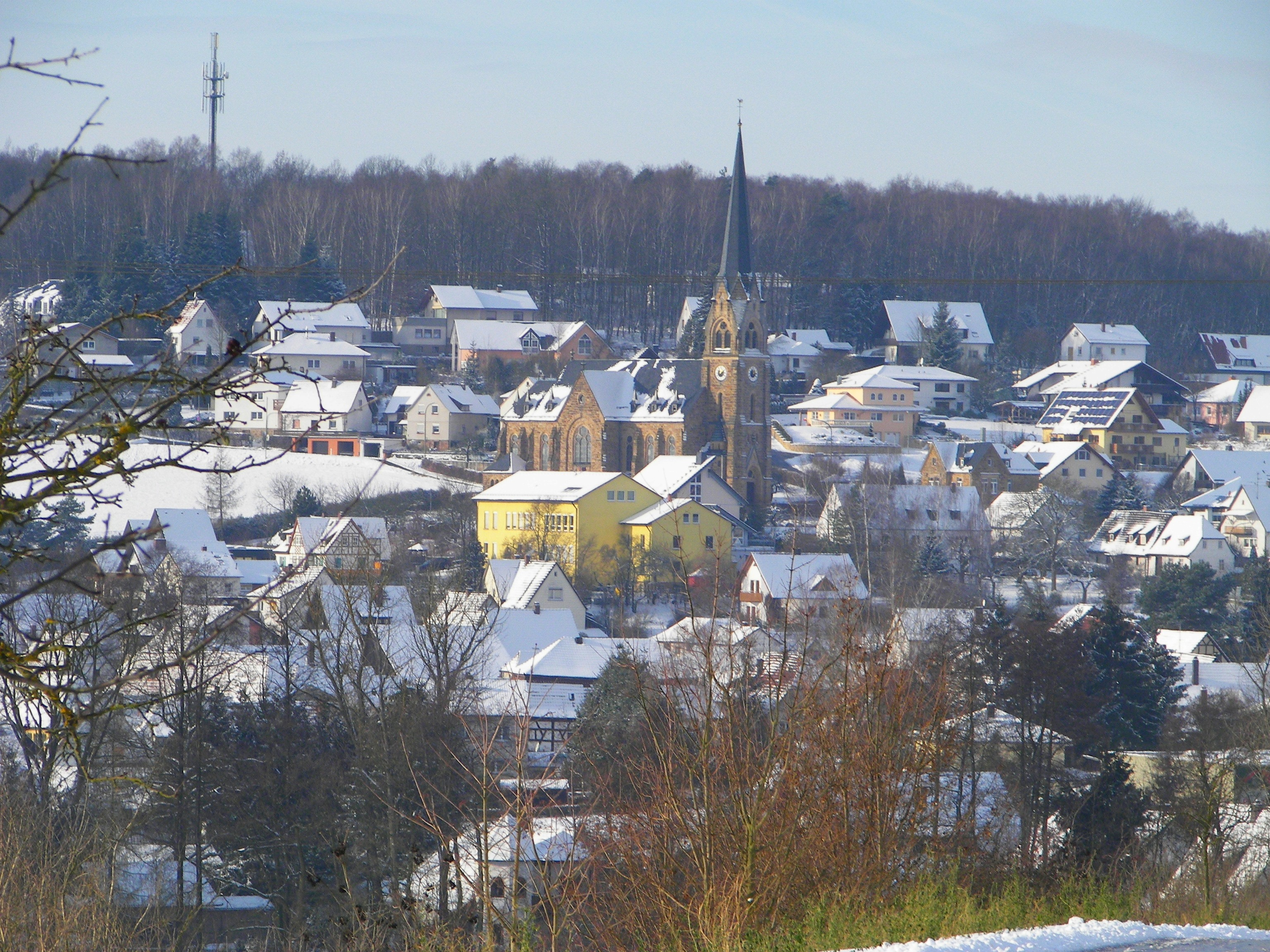 Schwürbitz, a district of Michelau in Oberfranken, with Herz-Jesu-Church